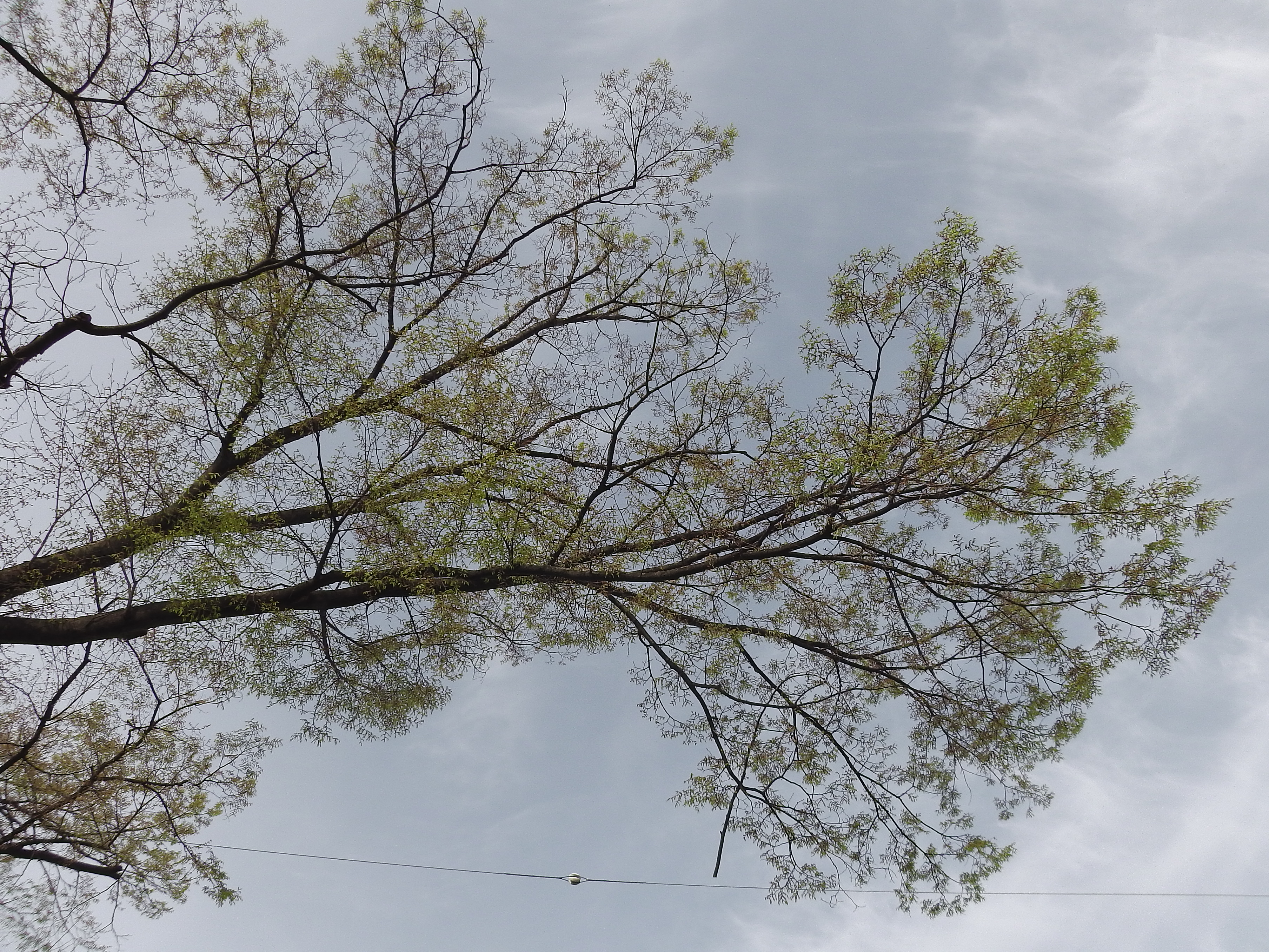 Leaves of the tree called "sennen keyaki" (thousand-year-Japanese-zelkova) at Nakano City, Tokyo, Japan